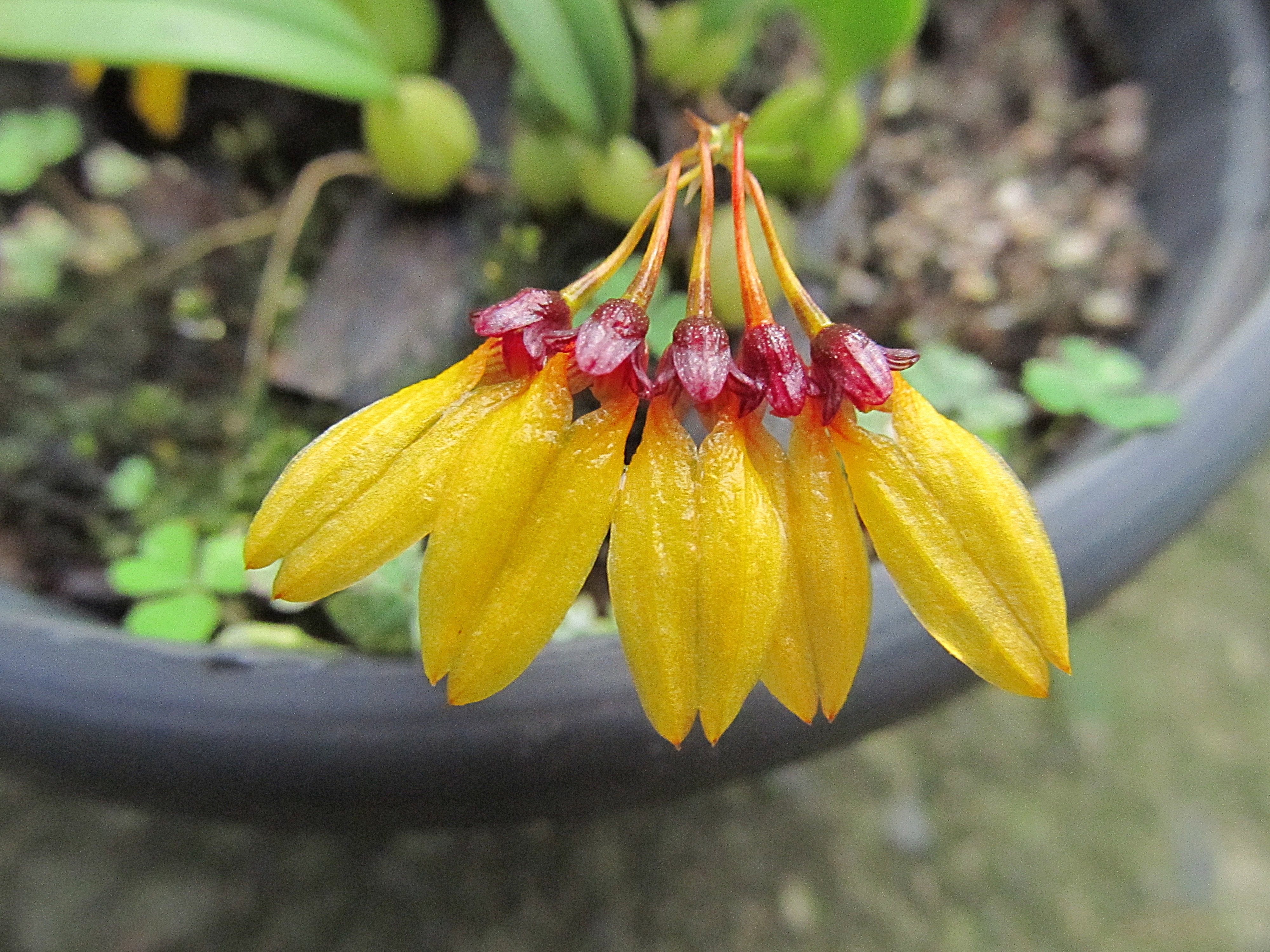 Photo by Christian Aparecido Demetrio 11/03/2013